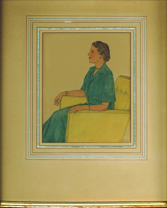 One of several portraits by Amy M. Sacker in a 1949 art show in Boston.